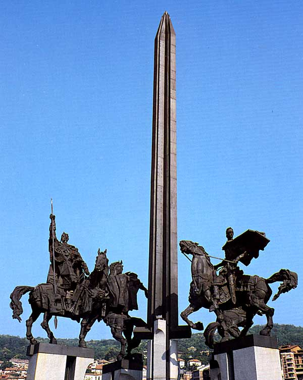 Monument of the Assens - Veliko Tarnovo 1987